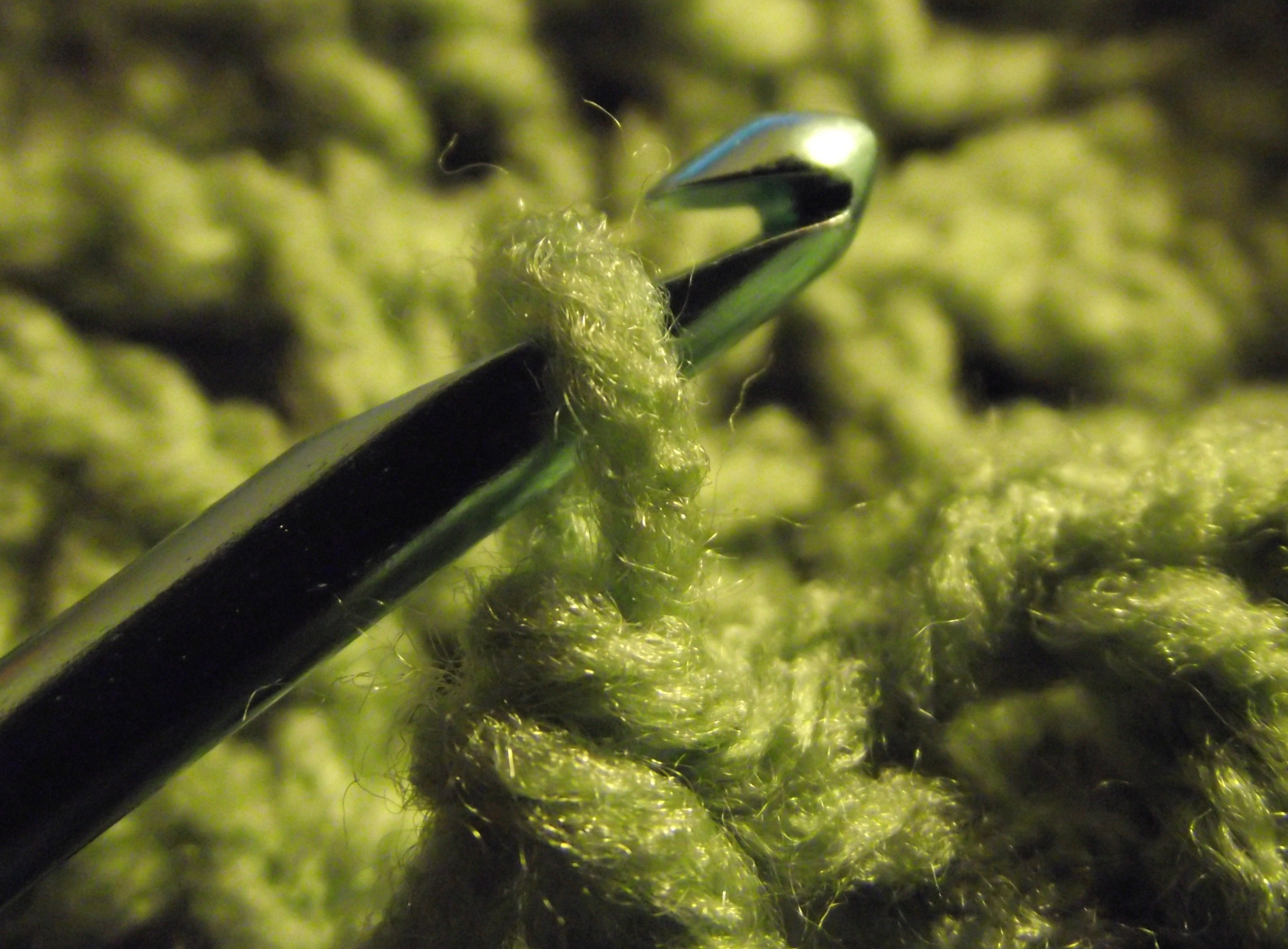 crochet hook & green acrylic yarn